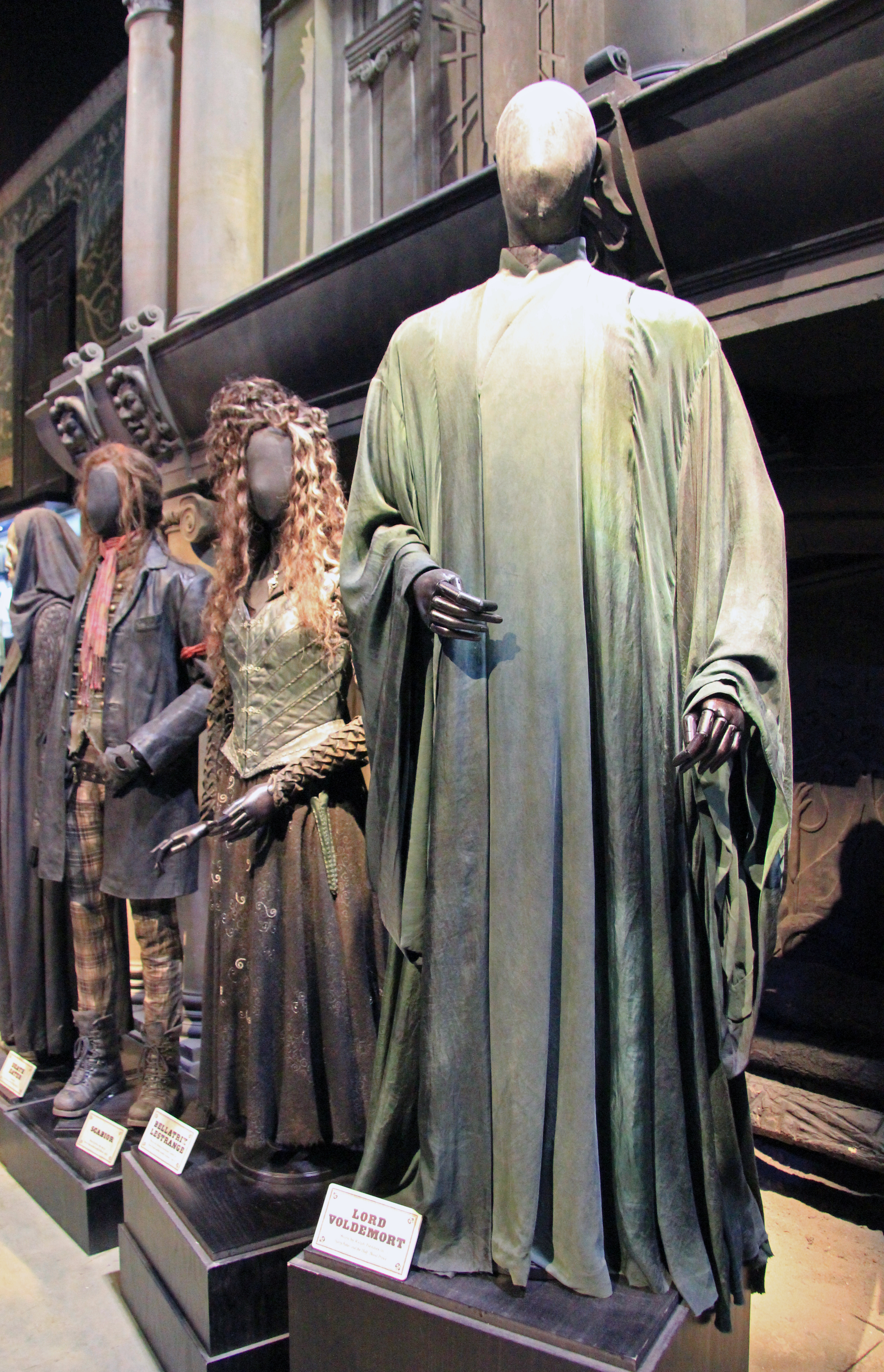 Warner Bros. Studio Tour London: The Making of Harry Potter.